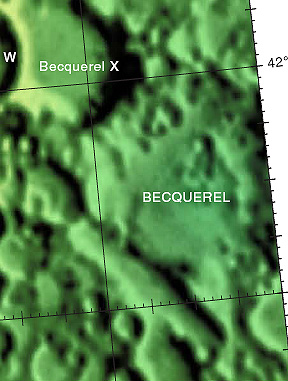 Becquerel lunar crater. Color-coded LAC 30 from USGS Digital Atlas